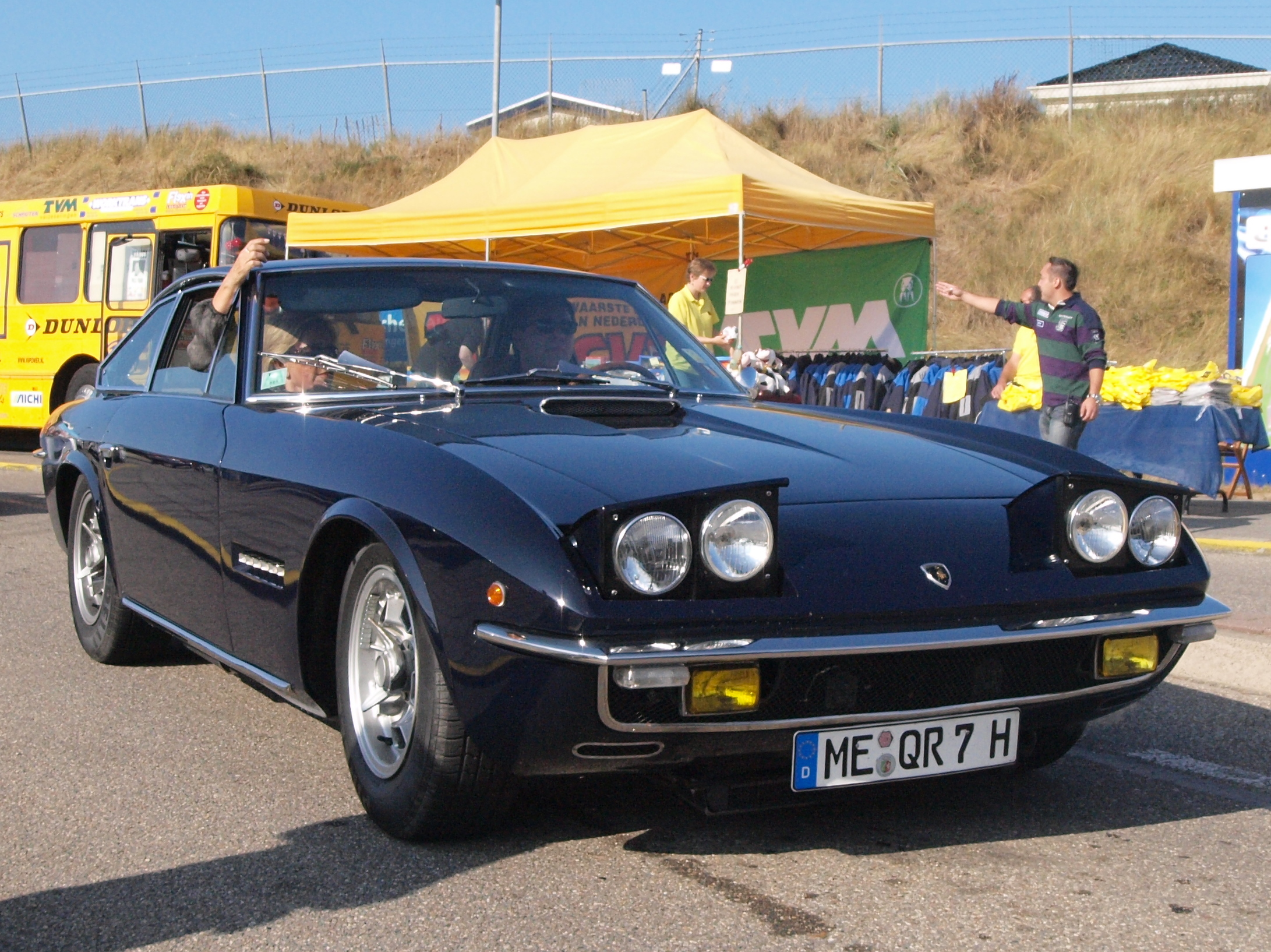 Photographed at the Nationaal Oldtimer Festival Zandvoort 2009, The Netherlands. OLYMPUS DIGITAL CAMERA